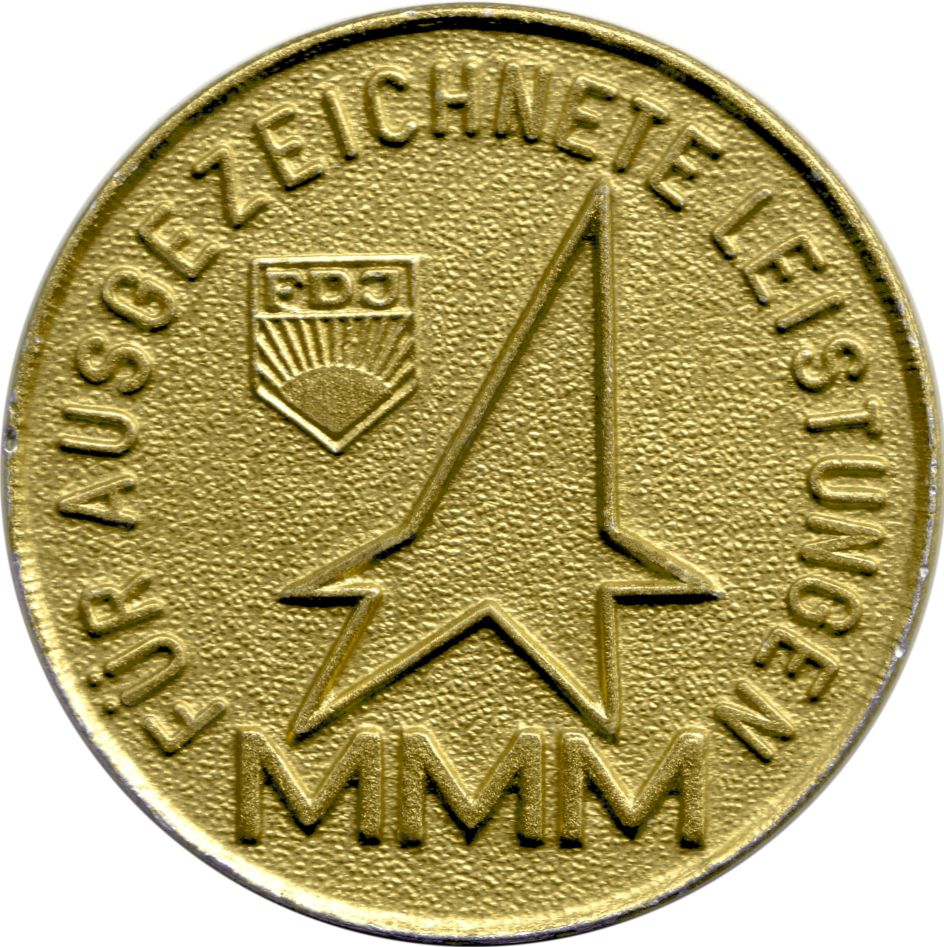 Gold medal of the Messe der Meister von Morgen (fair of tomorrows masters) (youth contest in the GDR)